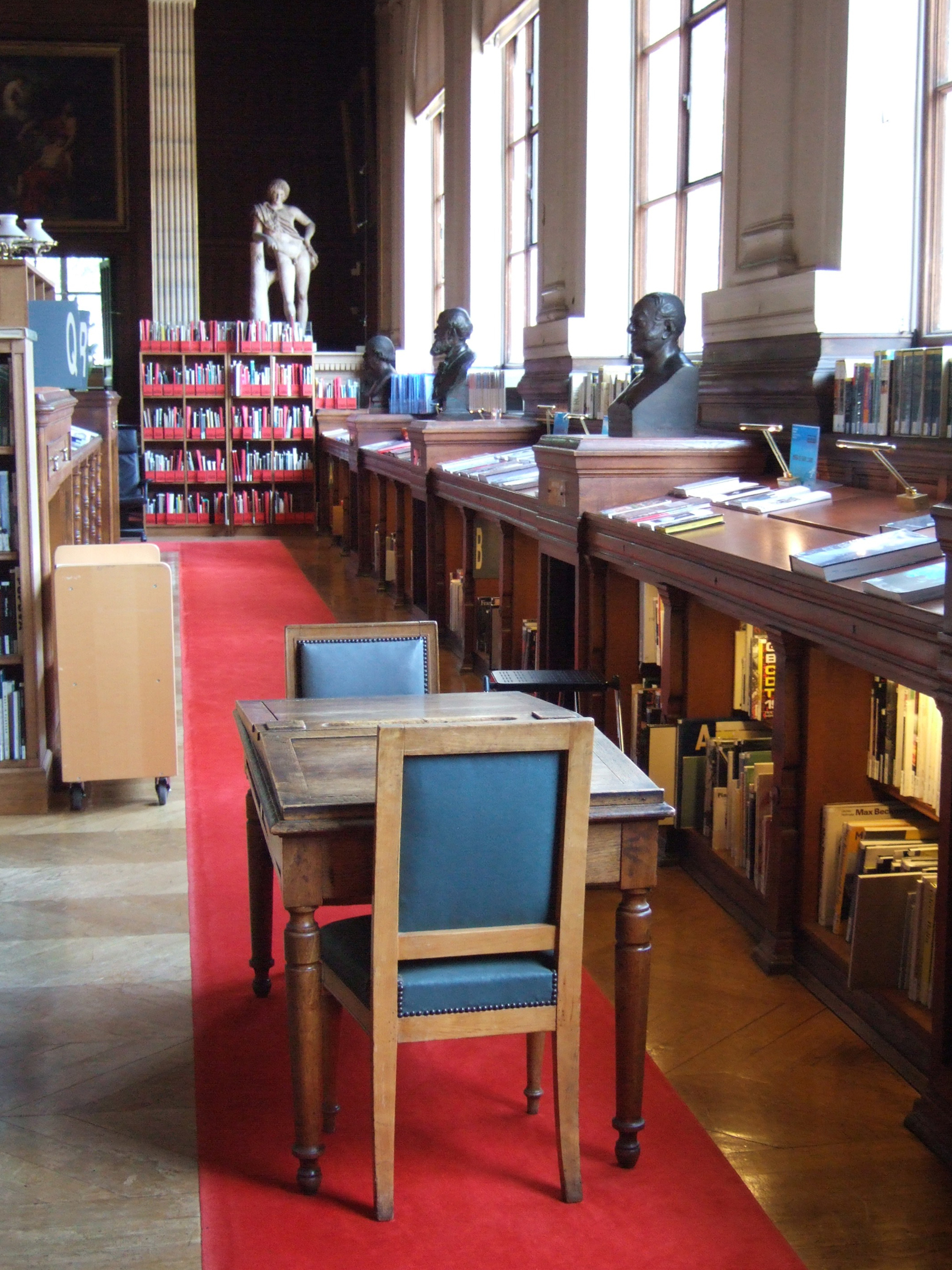 Ecole nationale superieure des Beaux-Arts, Paris, Ensba, Mediathek